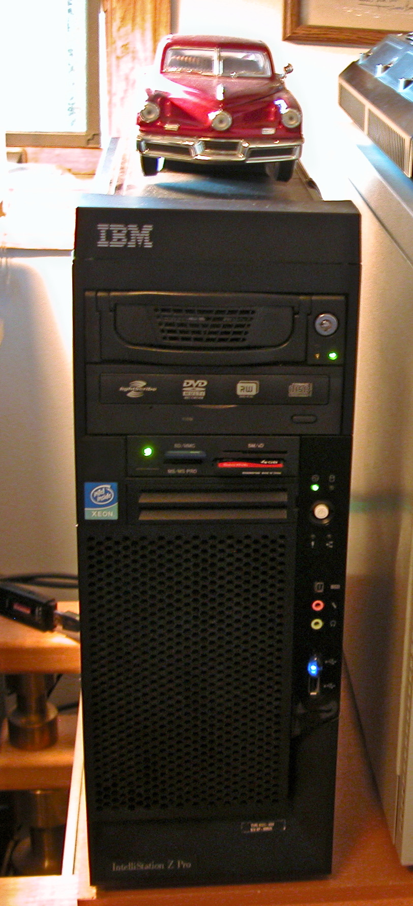 IBM IntelliStation Z Pro 6221-49U workstation privately owned as of September 2010. Purchased as off-lease surplus through IBM-authorized resellers. Internal hardware consists of 2x Intel Xeon Hyper-Threaded 3.2Ghz processors, 4Gb memory, 320Gb ATA-133 hard drive, ATI HD4670 1Gb AGP video card, and Koolance Exos-2 750 liquid cooling system. Operating system is determined by removable hard drive cassettes, swapping to either Windows 7 Professional 32-Bit, Fedora Linux, or Windows XP Professional.